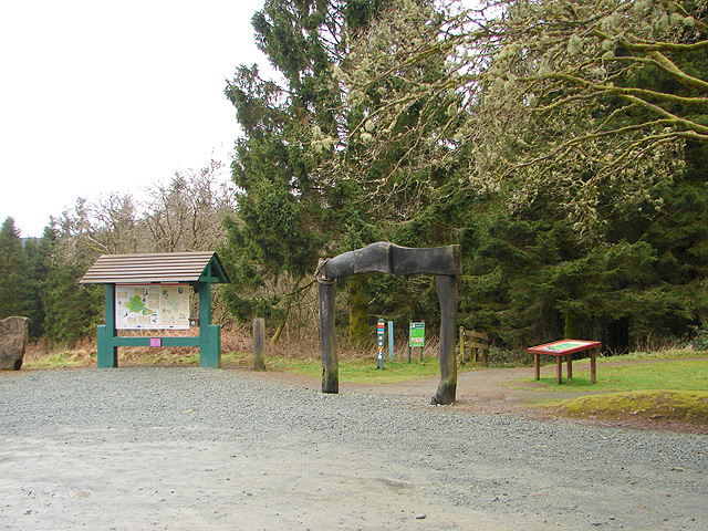 The entrance to the Severn Way path at Rhyd-y-benwch. For more than twenty years I've lived only about twelve miles from the source of the Severn, as the crow flies, but had not before made the 'pilgrimage' to it. For my walk this week I thought that I would continue the Hafren Forest theme (see 1113022 for last week's walk) and take the Severn Way through the forest from Rhyd-y-benwch (SN857869)to the source. In fact, a little on from source takes you to the county boundary stone and cairn at SN819900 - definitely worth the extra effort. As an added bonus, a loop to the south allowed me to gather-in three un-Geographed squares. The total distance was about twelve miles, with no difficult walking as the Severn Way has been 'sanitised' over the years, and the remainder was on forestry roads. The main problem was the weather. Changeable conditions in the morning led to steady rain by mid-day and the total cloud cover rendered light levels very poor. I hate rain when I'm Geographing with the continuing problem of keeping the spots from the lens. The exposed moorland at the source was bitterly cold and it was a relief to return to the shelter of the lower valleys. I believe this section of the Severn Way is very popular but understandably not so much at this time of the year. Apart from a couple of dog-walkers near the car park, I saw no one else during the whole twelve mile walk. A pity about the weather (to be expected in Wales at this time of the year!) but overall, very enjoyable and certainly to be recommended.